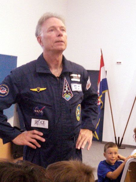 Gregory Olsen talking to kids at Dalmatian Space Summer ( in Split, Croatia